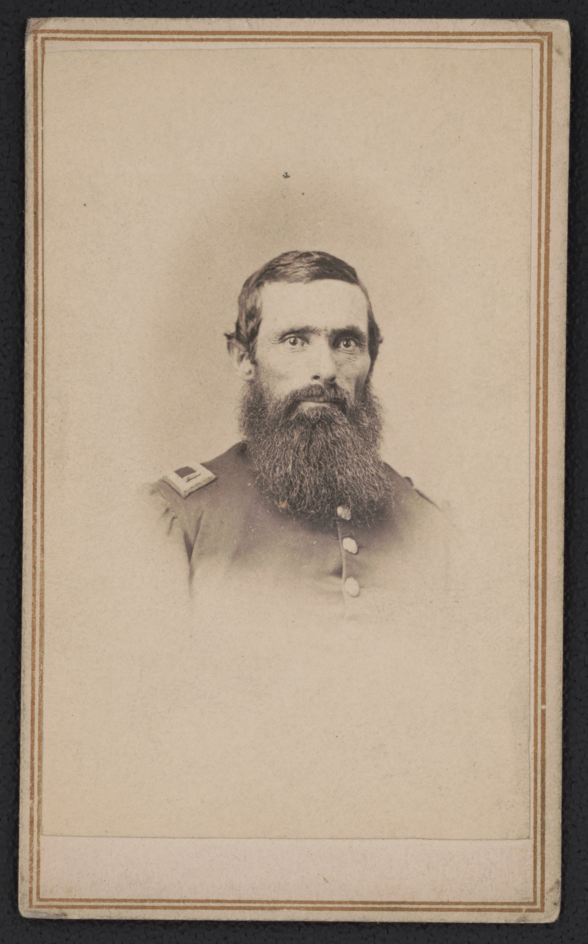 Title: Captain Phillip A. Sternberg of Co. B, 1st Alabama Cavalry Regiment, in uniform] / Howard & Hall, artists, Corinth, Miss Abstract/medium: 1 photograph : albumen print on card mount ; mount 10 x 6 cm (carte de visite format)